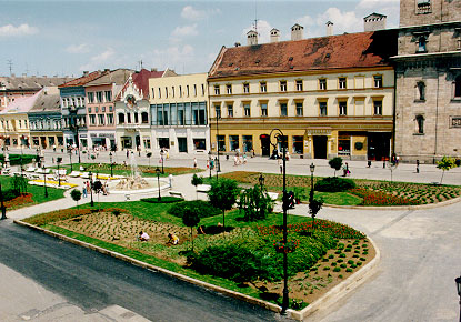 Royal House Site, Košice